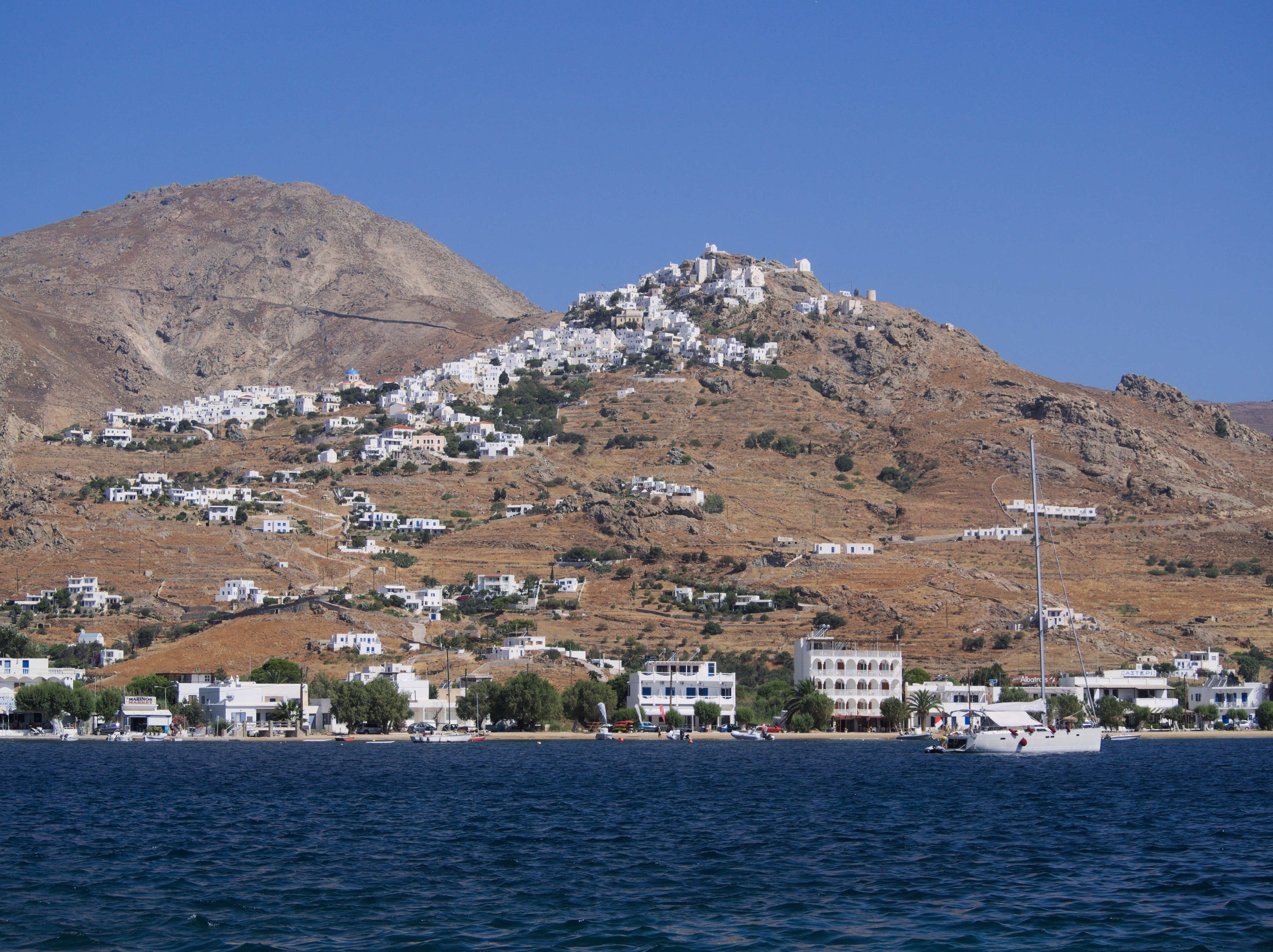 View of Chora of Serifos from Livadi